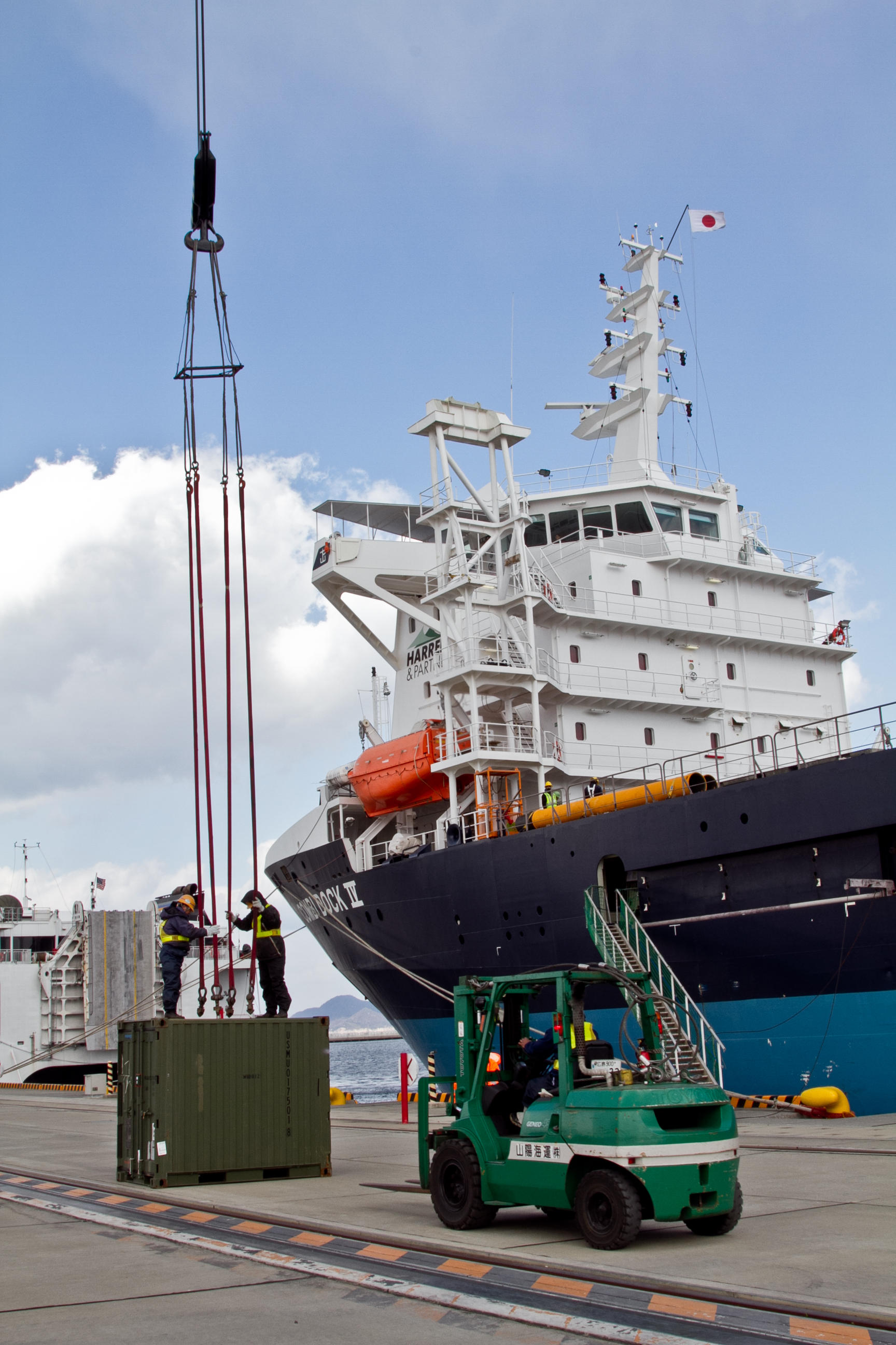 Harbor operations personnel here off-load cargo from the Combi Dock IV, 836th Transportation Battalion, Surface Deployment and Distribution Command in support of Operation Tomodachi, Japan, March 16.